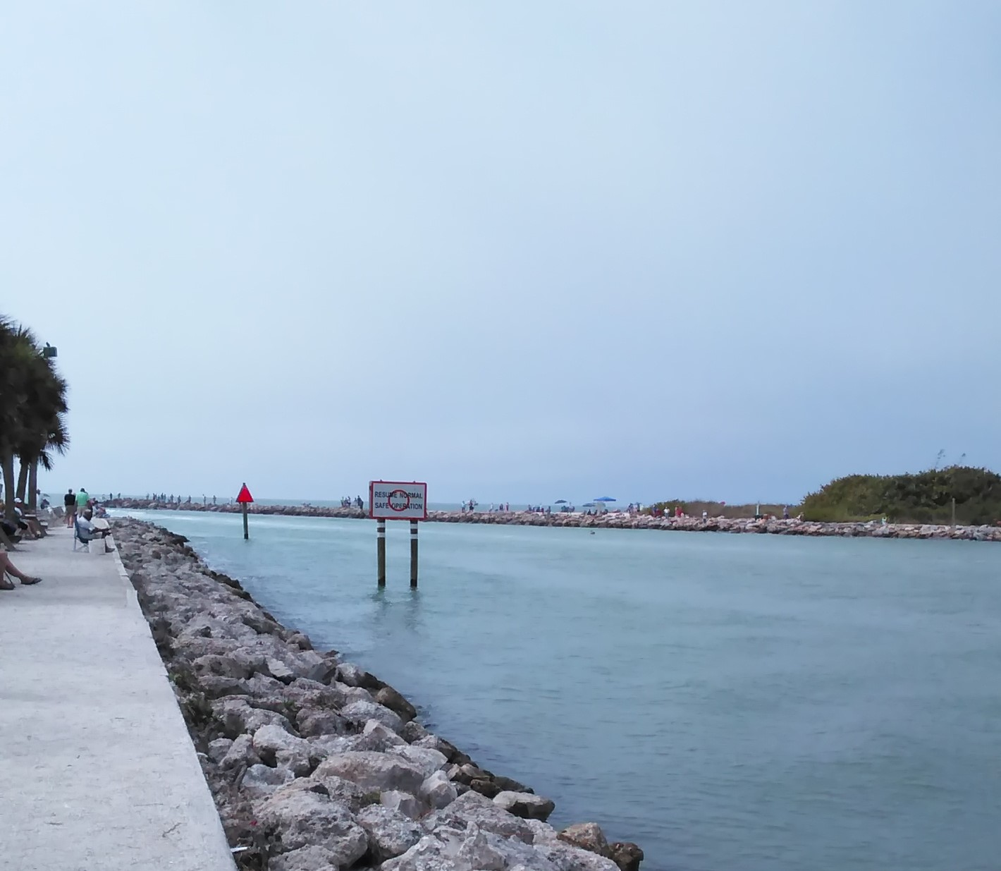 The piers forming the Venice Jetty